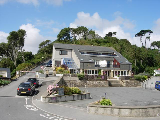 Maenporth. The Cove restaurant has a good reputation, but is fairly (but not excessively) pricey. The Maenporth Estate behind is a purpose built development of holiday homes, with communual facilities.